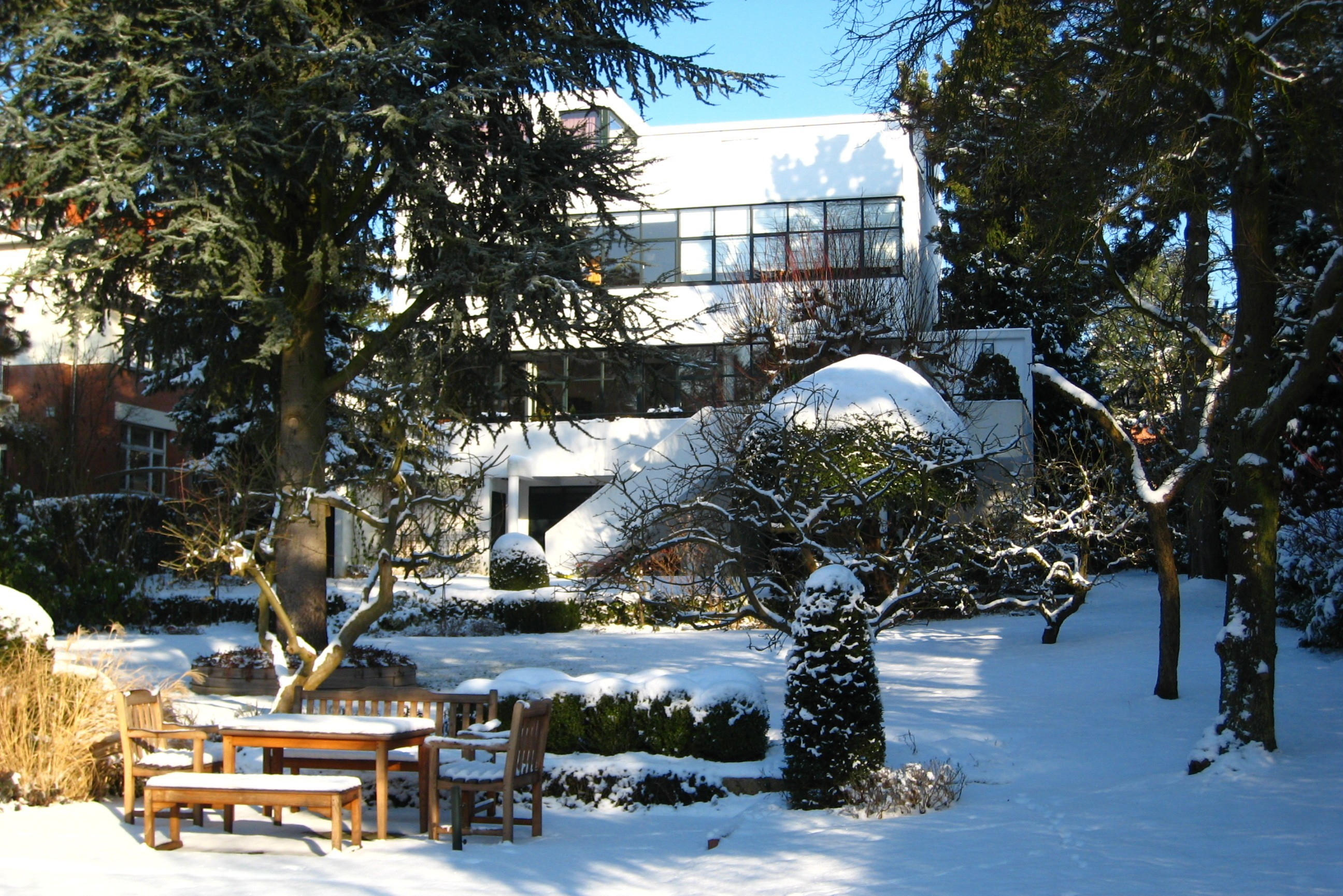 Modernist villa built by architect Emile Goffay in 1935